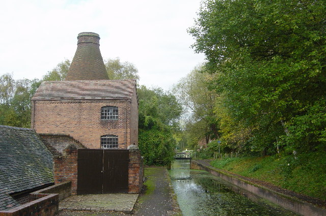 China pottery kiln & canalside, Shropshire Canal at Coalport